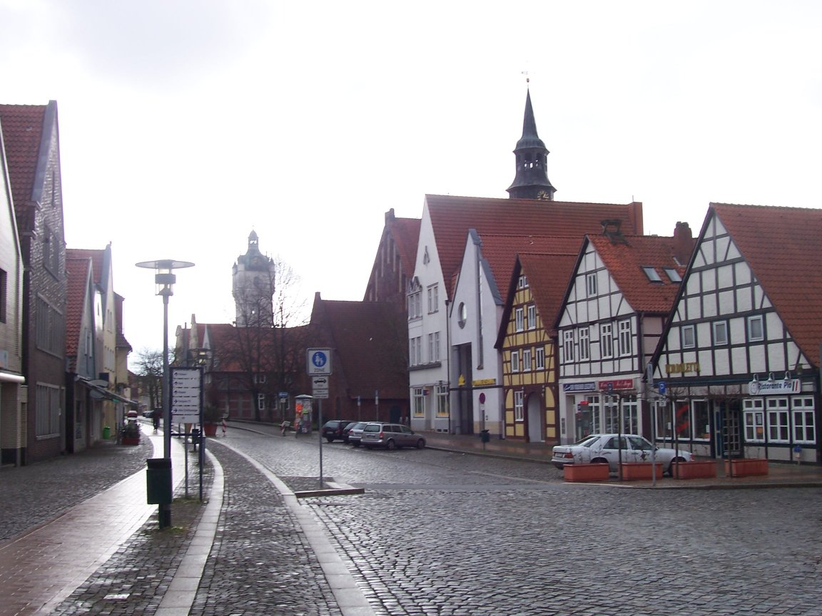 Große Straße, Verden.